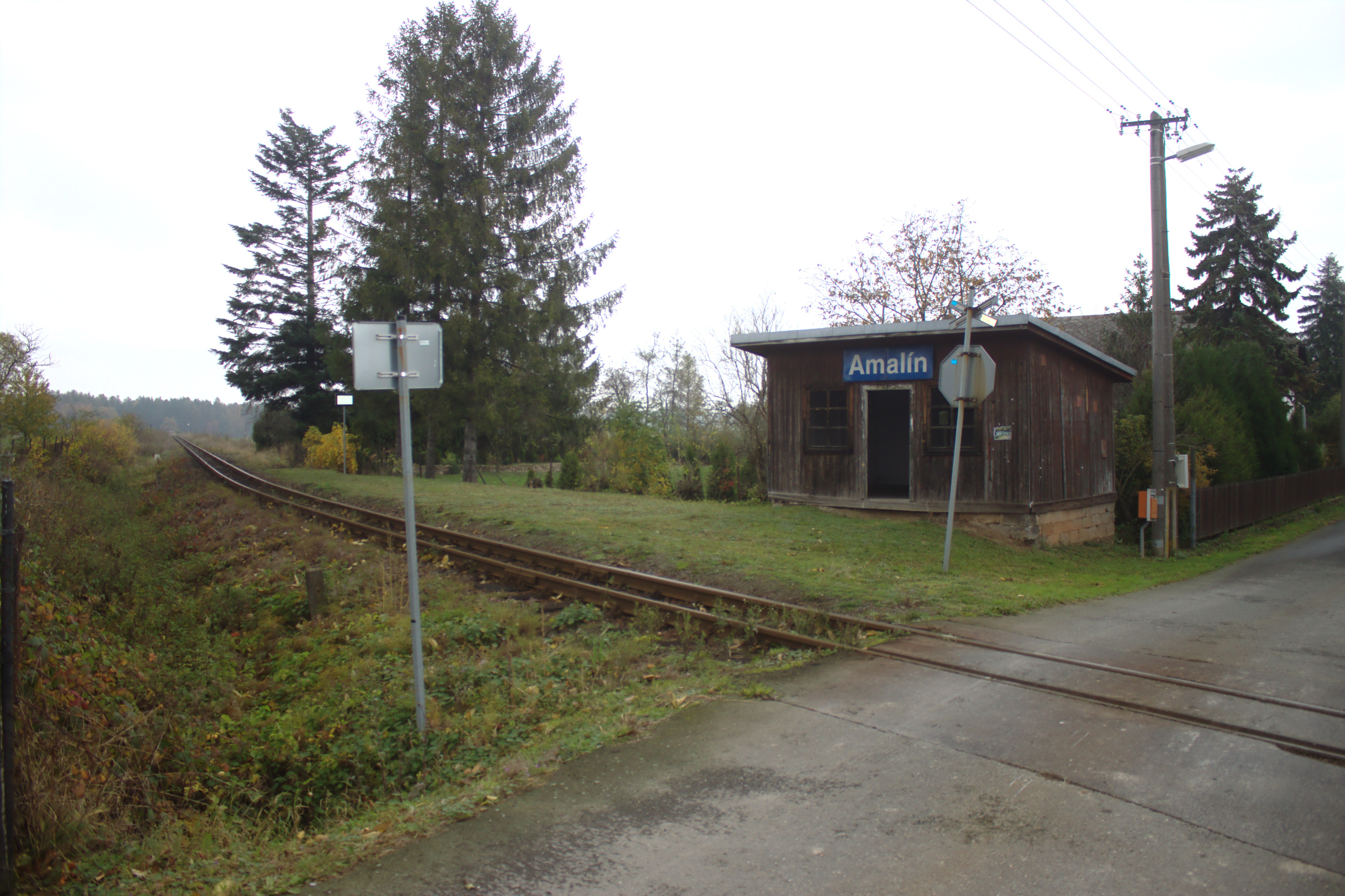 Amalín train stop, CZ